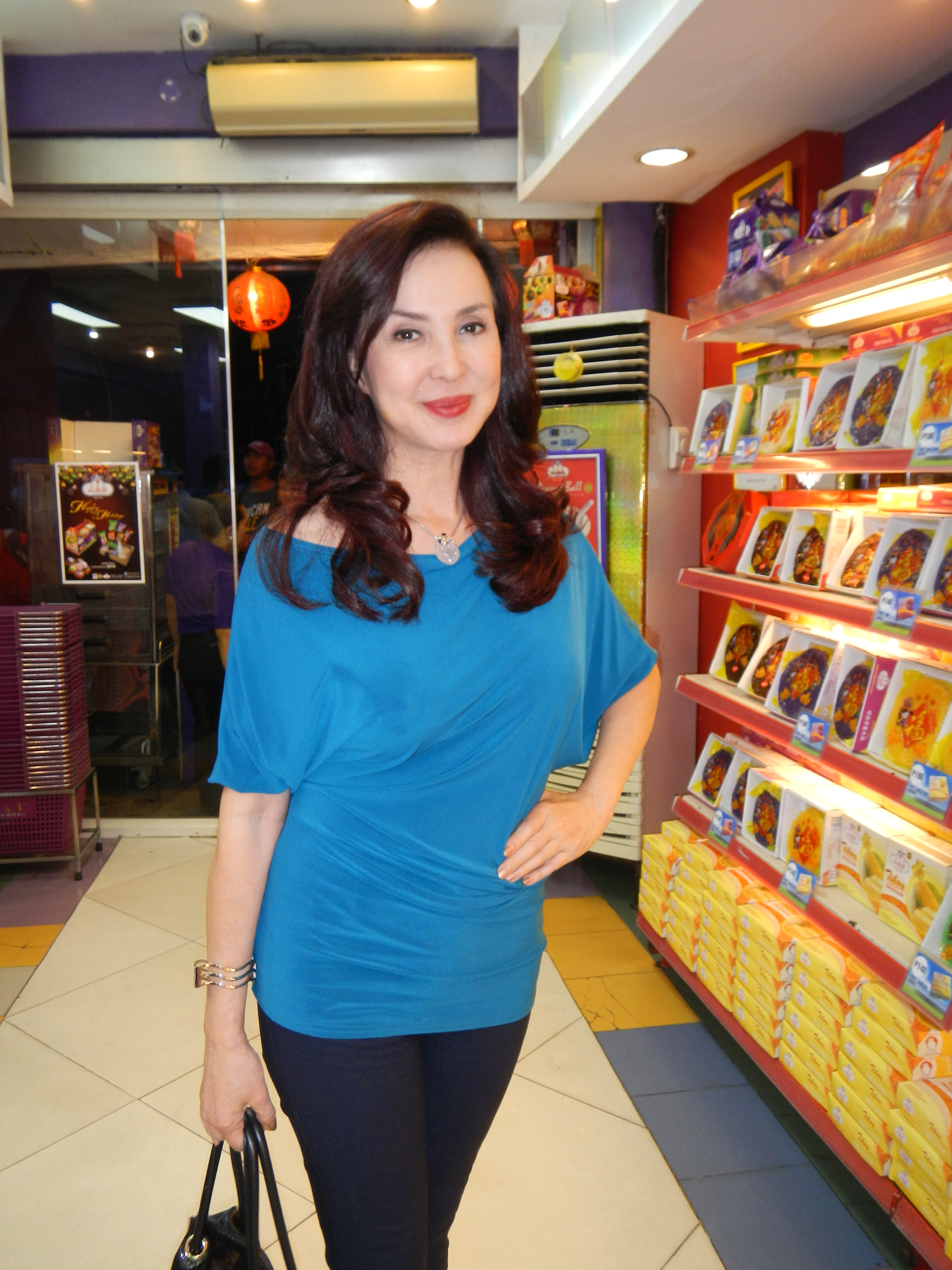 Upload Wizard photos of - a) Cory Quirino [1] Socorro Alicia "Cory" Quirino Rastrollo, born August 11, 1953, a Filipina author, and television and radio host the exclusive licensee and national director of Miss World Philippines and Mister World inside the Eng Bee Tin Chinese Deli [2] and b) Roman Ongpin Street, 628 Coordinates 14°36'0"N 120°58'30"E[3] Roman Ongpin Monument Onpin St. in front of the Binondo Church 28 February 1847-10 Dec 1912 List of historical markers in the Philippines nationalist and philanthropist[4] and c) Binondo Church, also known as Minor Basilica of St. Lorenzo Ruiz [5] Binondo, Manila [6] in front of Plaza San Lorenzo Ruiz [